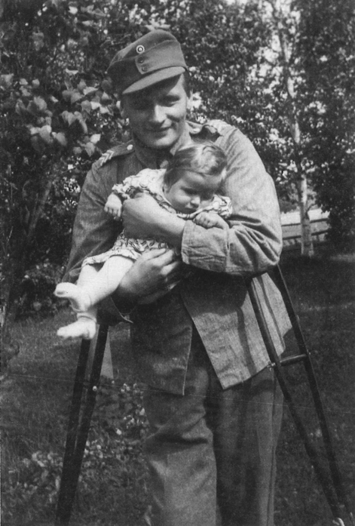 Photograph of the Finnish painter Onni Oja (1909–2004) with his daughter Rispa.